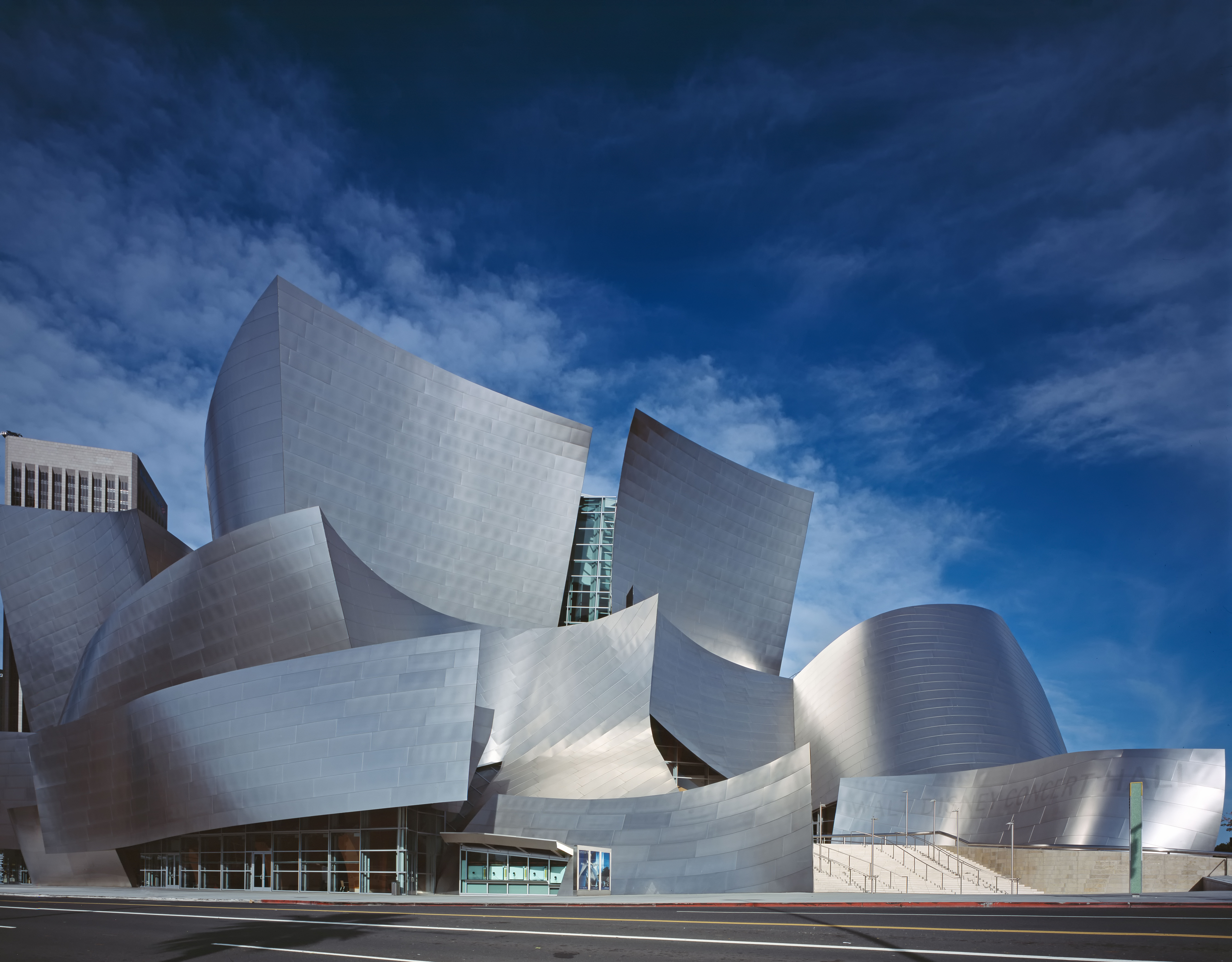 The Walt Disney Concert Hall, home to the Los Angeles Philharmonic, features an acoustically superior auditorium paneled in hardwood. The Disney family contributed more than $100 million to the project.